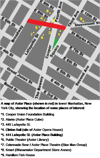 A schematic map of Astor Place (shown in red) in lower Manhattan, New York City, showing the location of some places of interest: 1. Cooper Union Foundation Building 2. Alamo (Astor Place Cube) 3. Condominiums at 445 Lafayette St. 4. Clinton Hall (Mercantile Library Building) 5. Astor Place Building (444 Lafayette St.) 6. Public Theatre 7. Astor Place Theatre (Category:Blue Man Group) 8. Kmart (Wanamaker Department Store Annex) 9. Hamilton Fish House